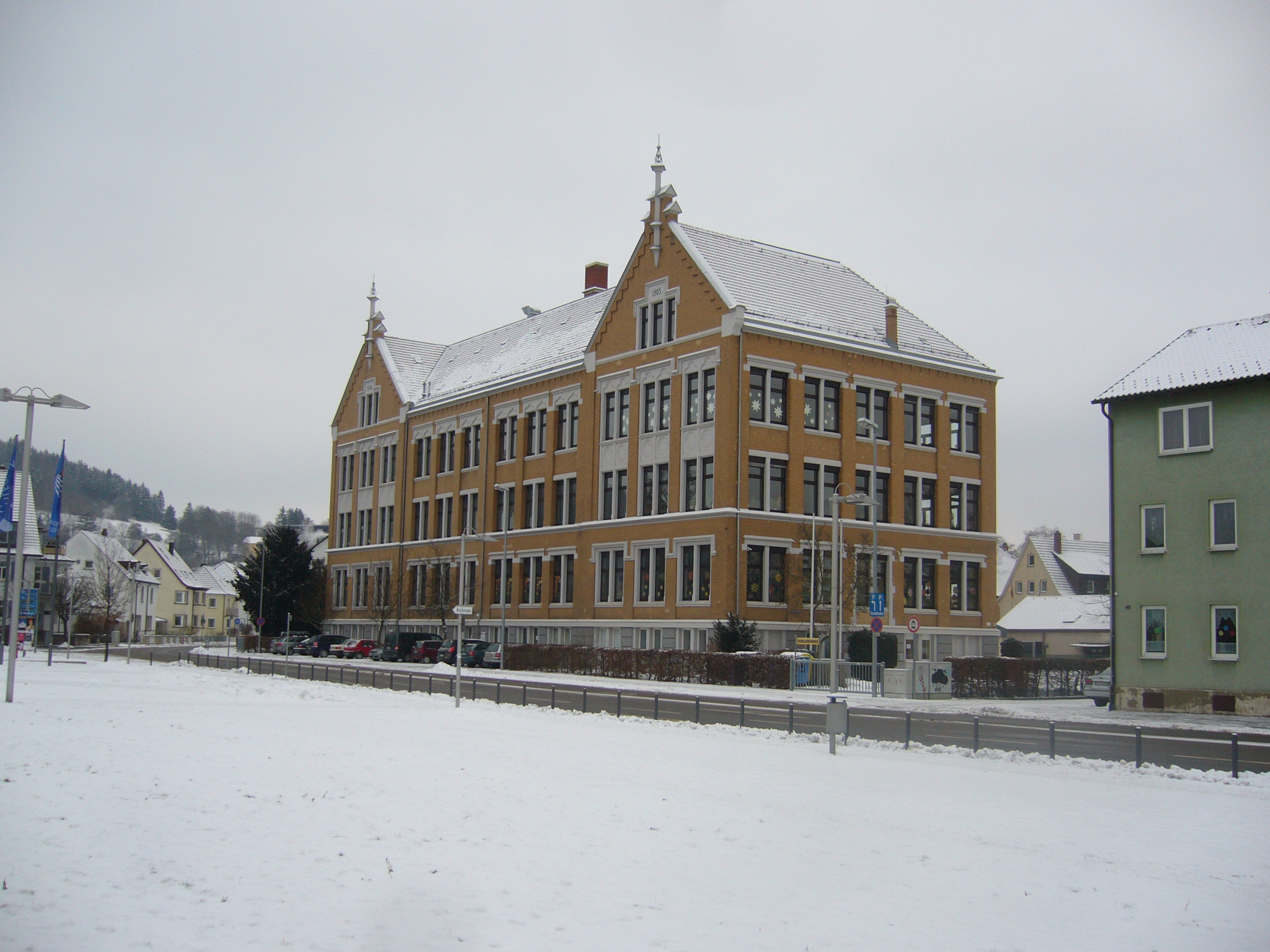 Schiller Grundschule in Tuttlingen, Germany